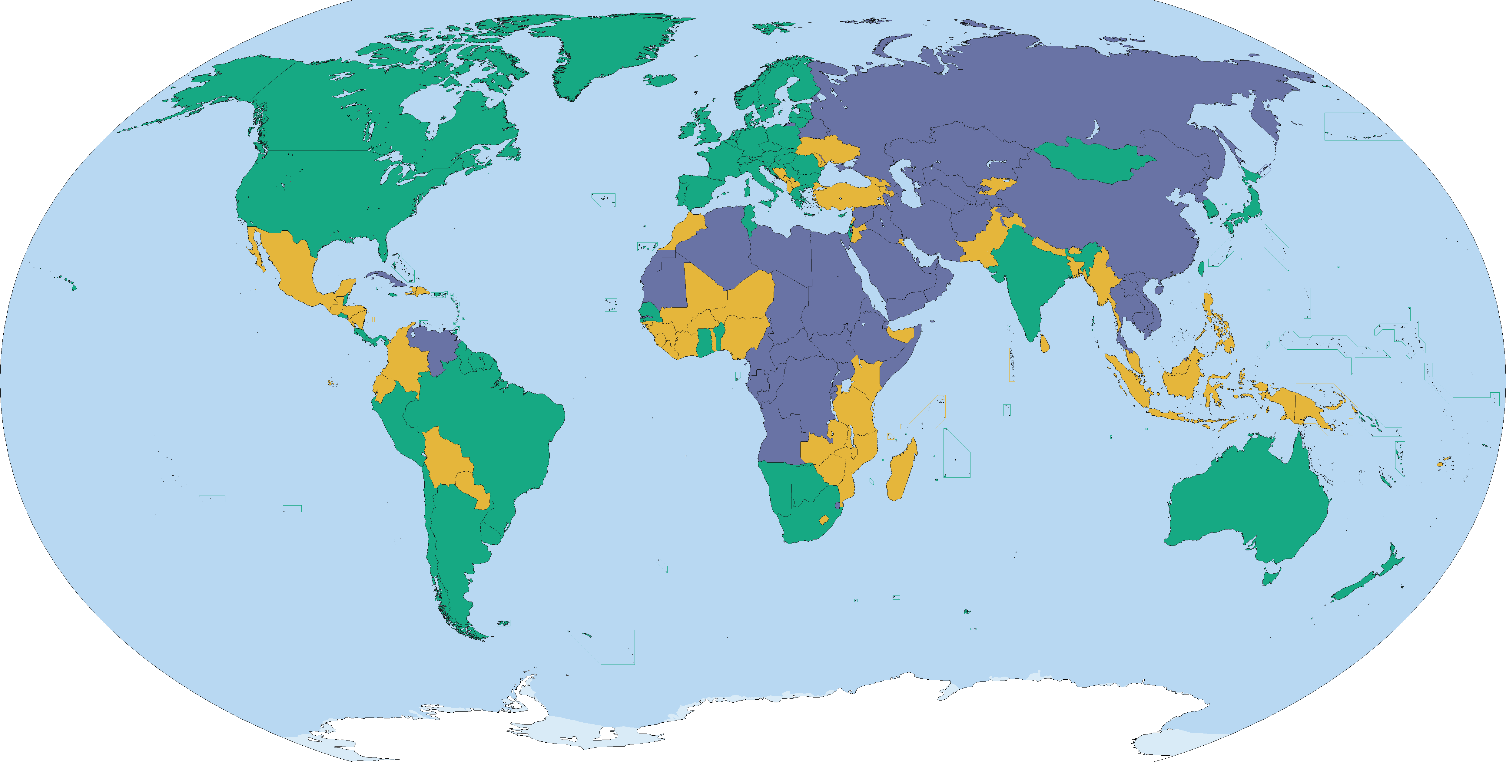 Country ratings from Freedom House’s Freedom in the World 2017 survey, concerning the state of world freedom in 2016.[1] Free Partly Free Not Free See also: File:2015 Freedom House world map.png, File:2013_Freedom_House_world_map.svg